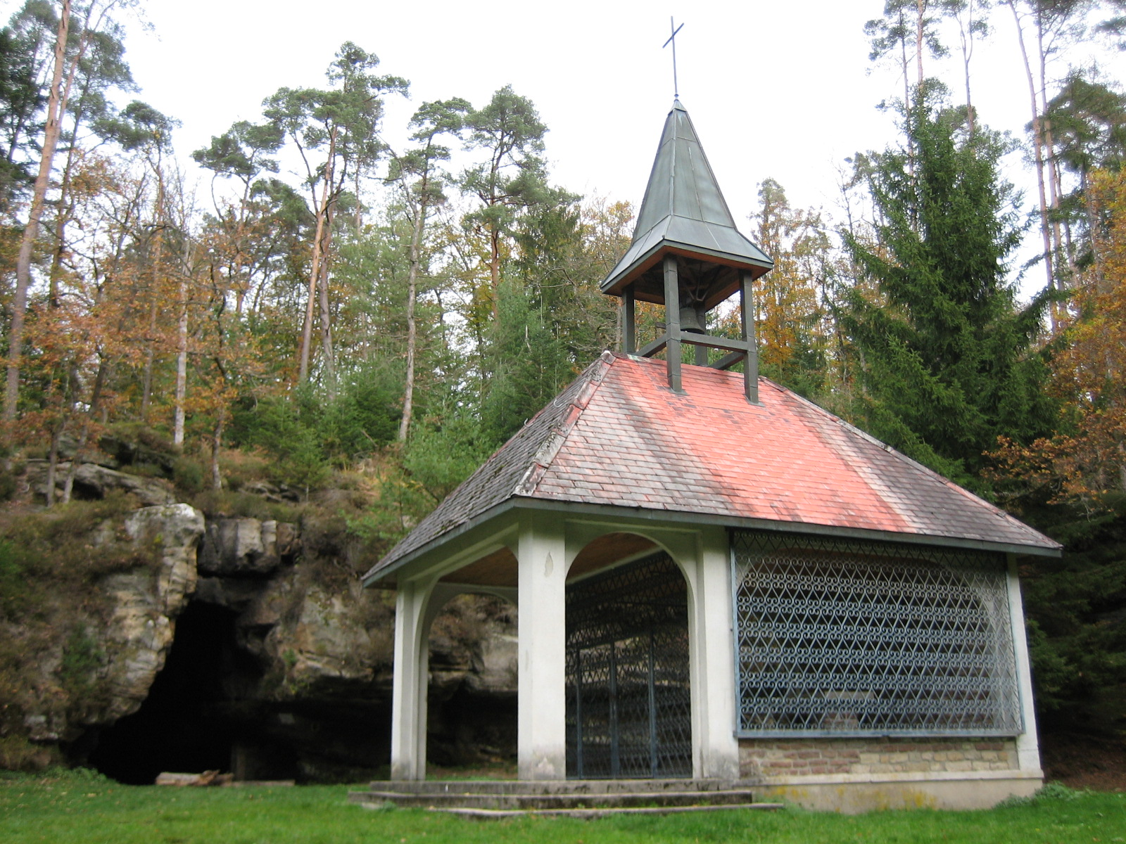 Saint-Martin´s vault and the cave, located in Escles (France)